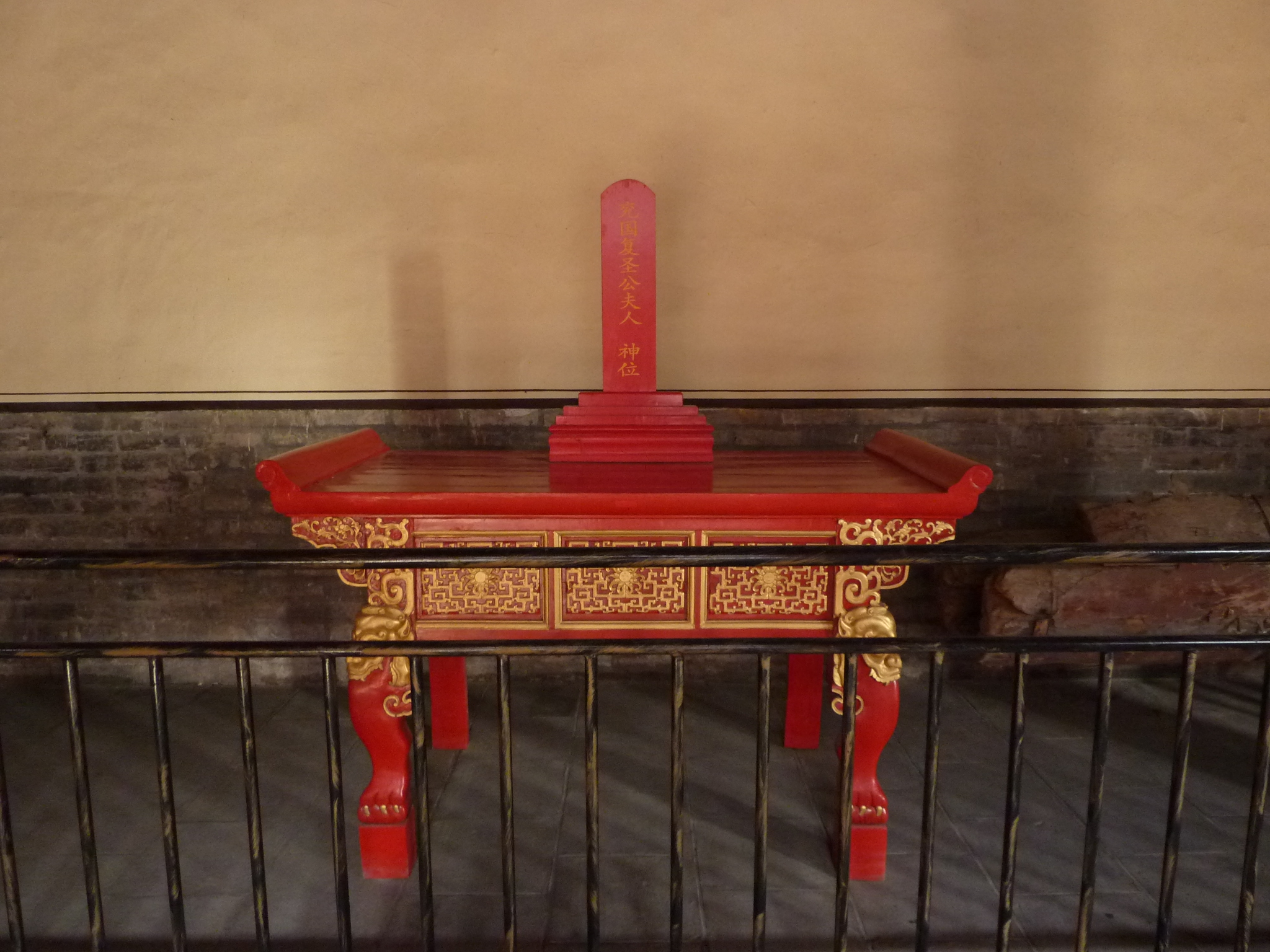 A tablet in honor of the Continuator of the Sage, the Duke of Yanguo (Yanguo Fusheng Gong), i.e. presumably Yan Hui himself, in the Hall of Fusheng, the main sanctuary of Yan Miao